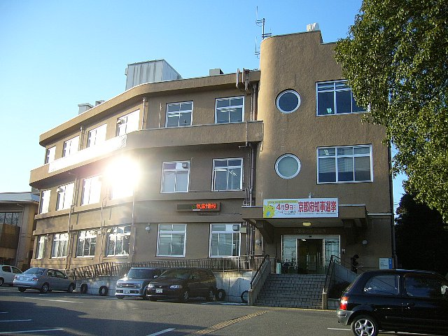 Ukyo Ward Office in Kyoto City, Japan